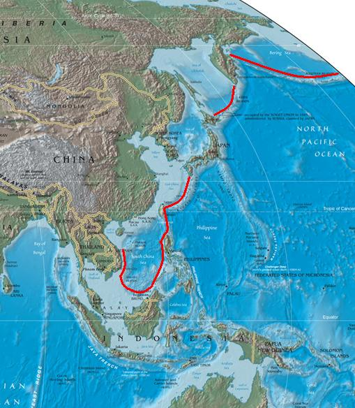 The map shows the "first island chain" perimeter (marked in red). The map was taken from Wikimedia Commons. The "first island chain" perimeter was derived from “Asia's balance of power: China’s military rise”, and “China’s military rise: The dragon’s new teeth”; both are articles from The Economist, dated 7 April 2012.